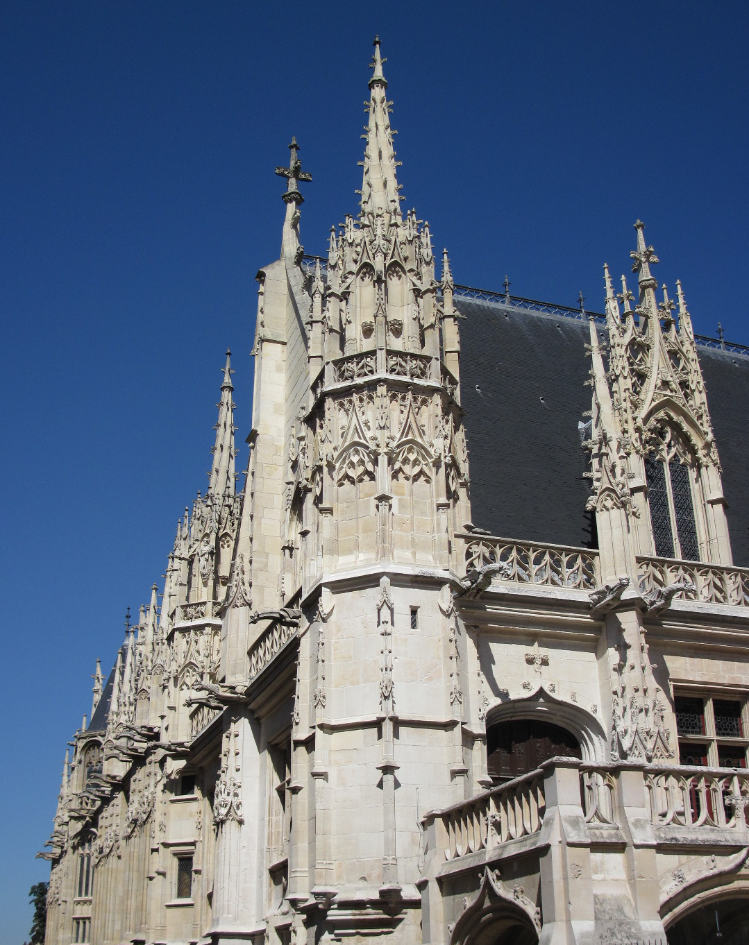 Law courts, Rouen, August 2009